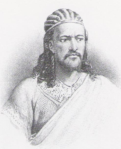 Tewodros II, around 1860